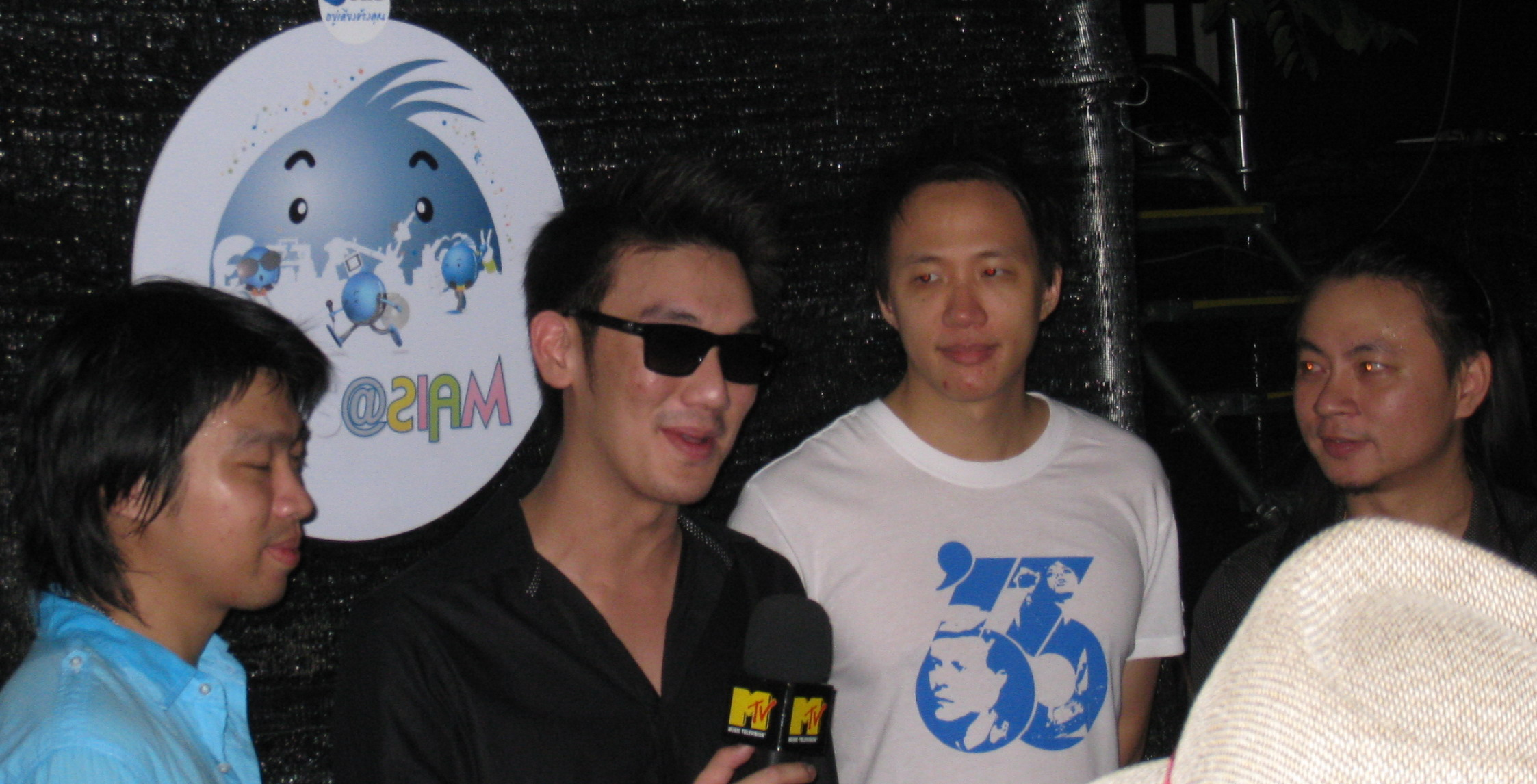 Groove Riders at MAIS@Siam